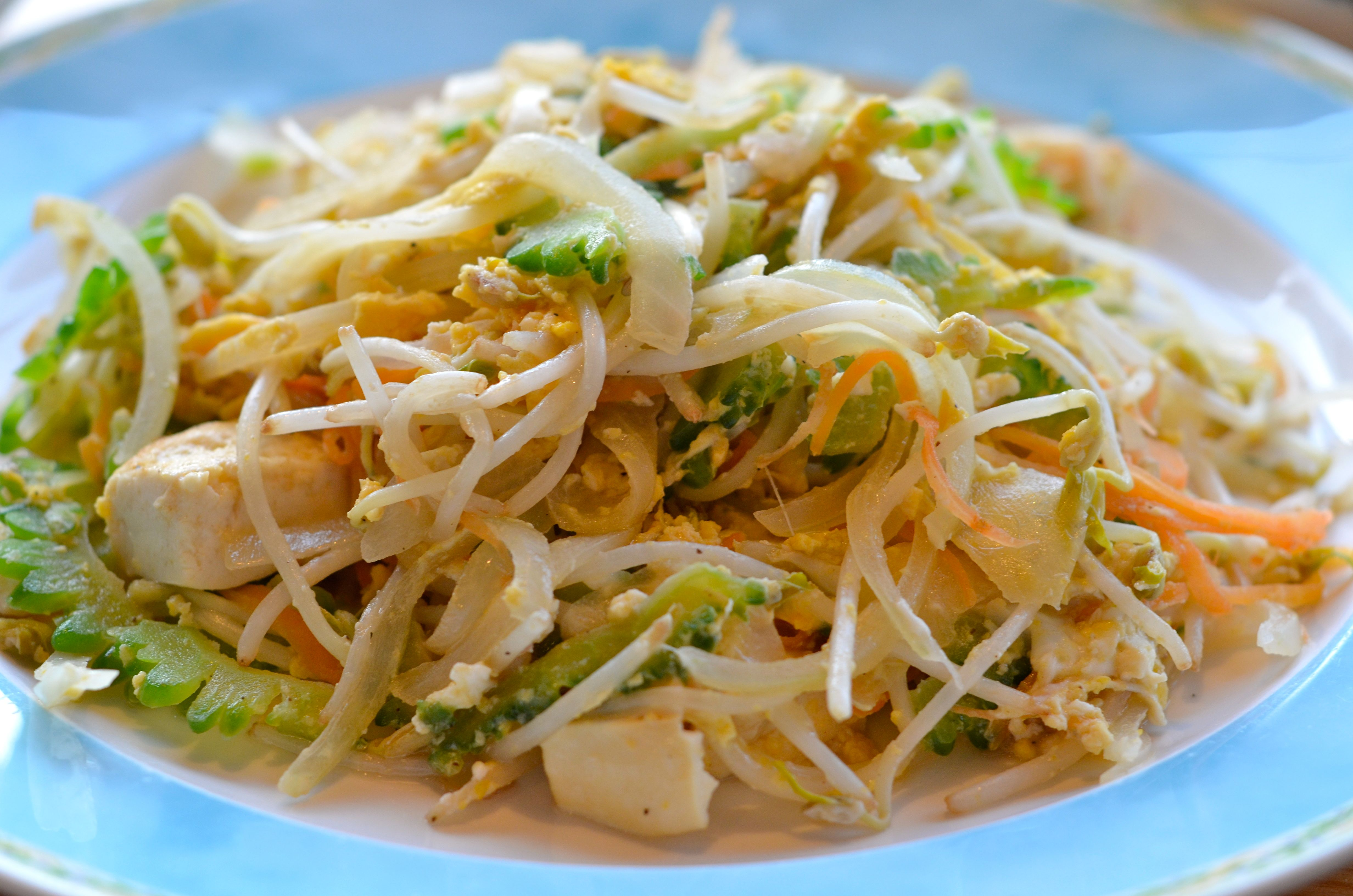 Bitter gourd (goya) chanpuru at Yumenoya, Ishigaki, Okinawa, Japan.